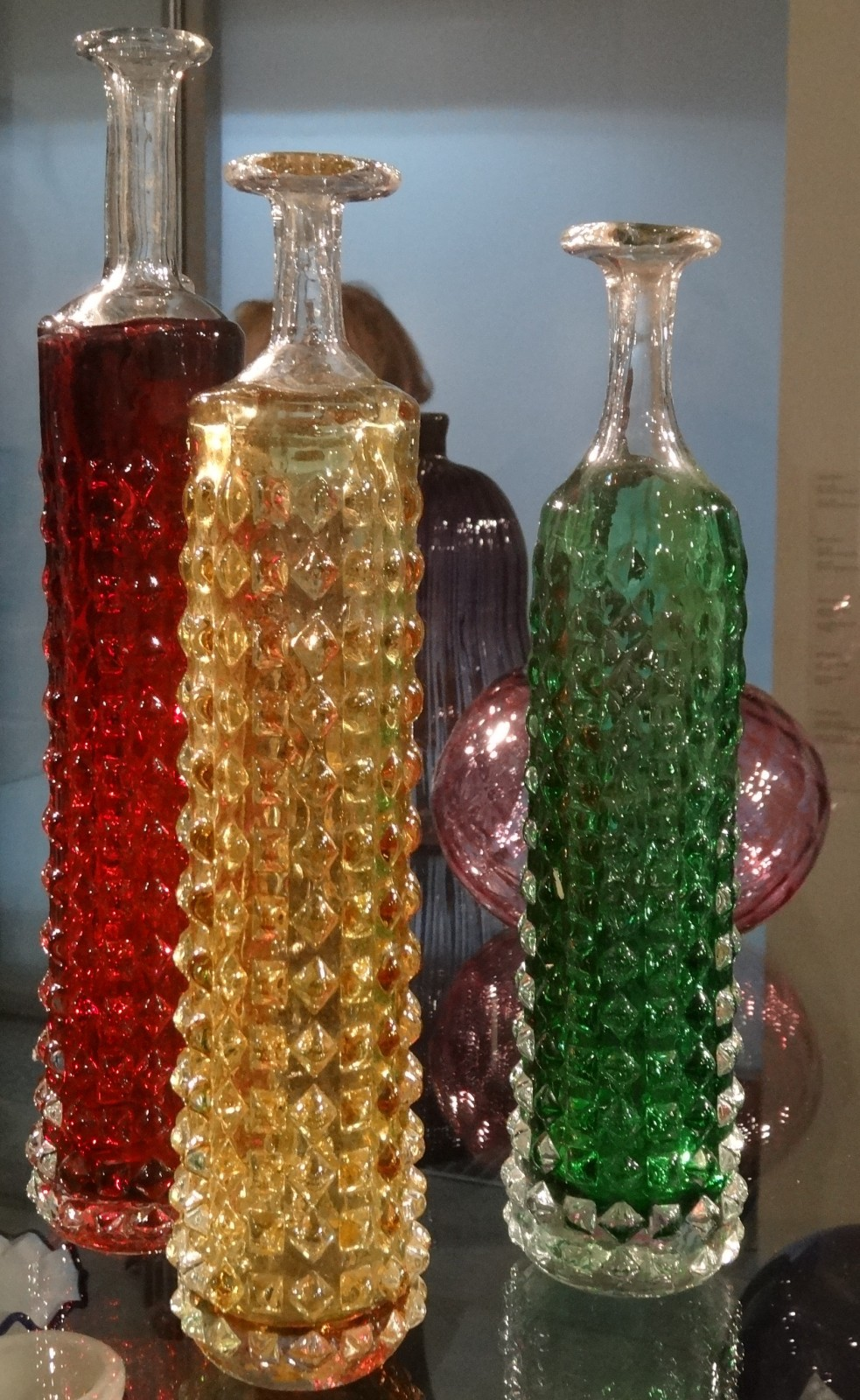 Miluše Roubíčková (* 1922), Czech glass artist: glass objects from the series "bottles", at the exhibition "Glass and why not II", Czech Republic, Prague (2012 / 2013), Museum Kampa - The Jan and Meda Mládek foundation